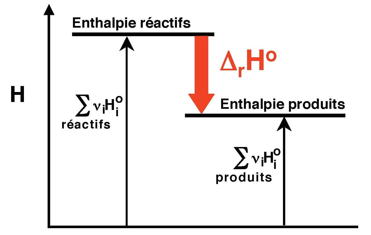 This figure shows that the enthalpy of reaction must be calculated using a reference state. Legends are in French.